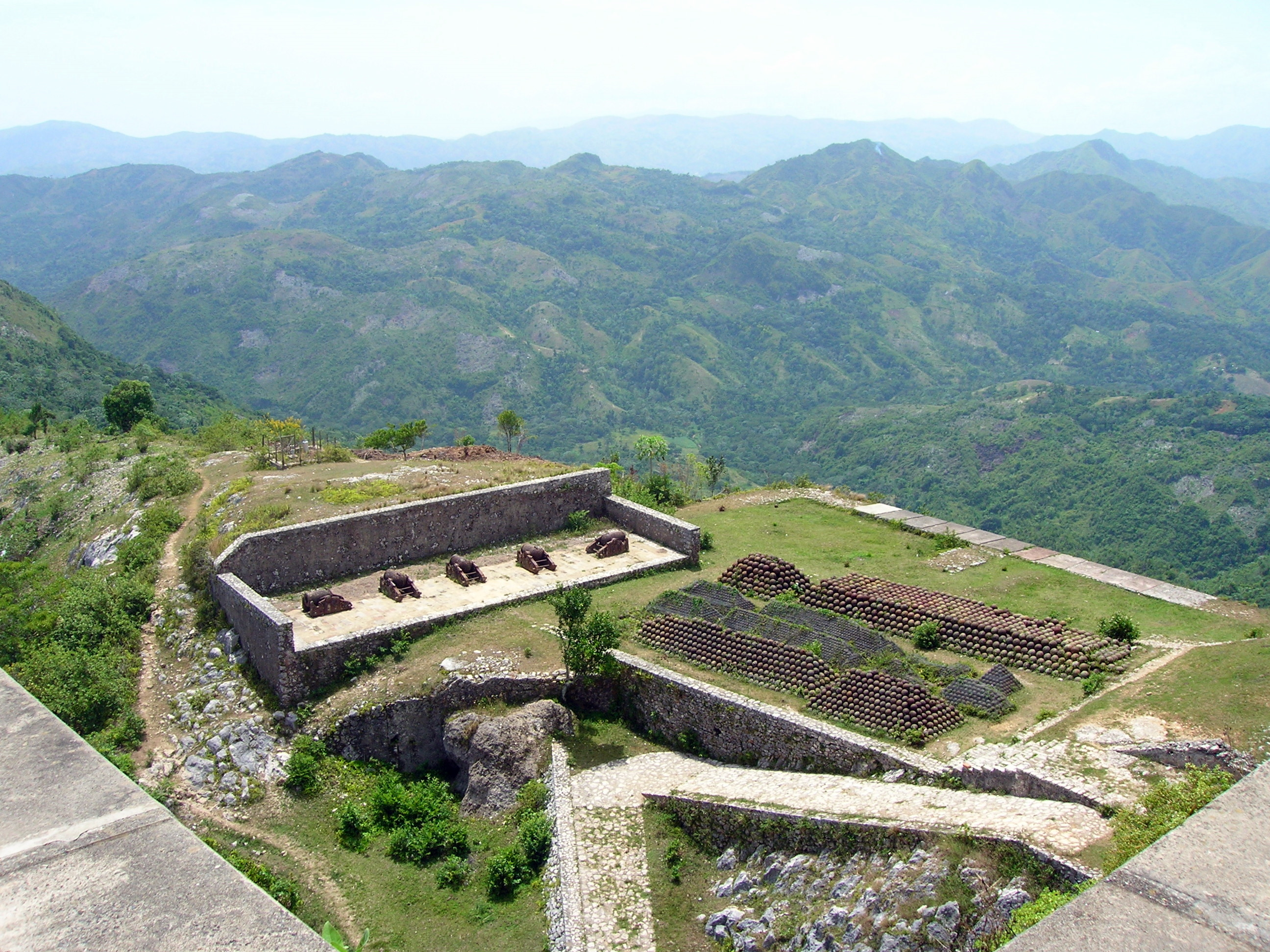 The Citadelle Laferrière, near Milot in Haiti : guns and bullets at the rear.